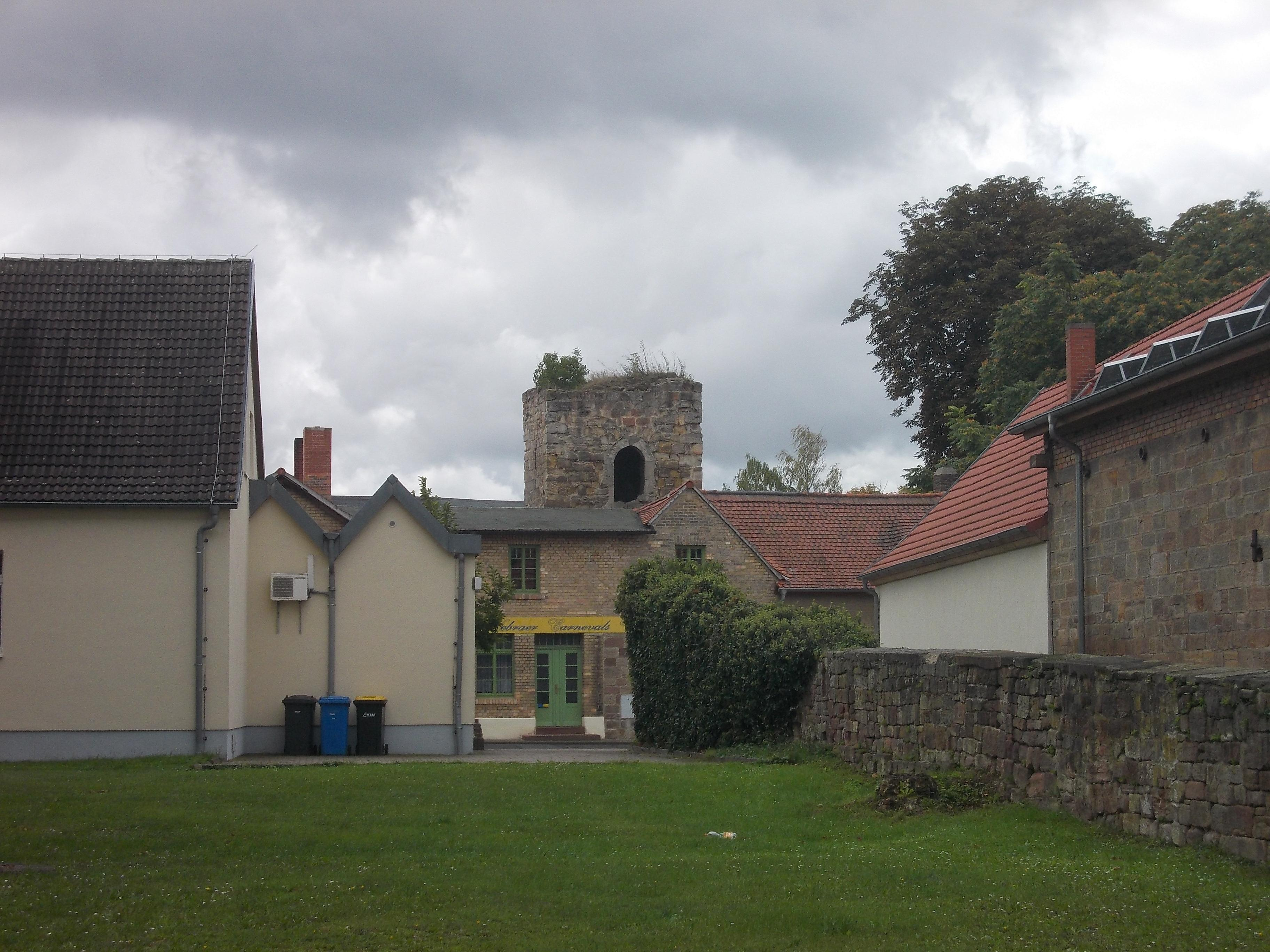 Town wall in Nebra (district: Burgenlandkreis, Saxony-Anhalt)